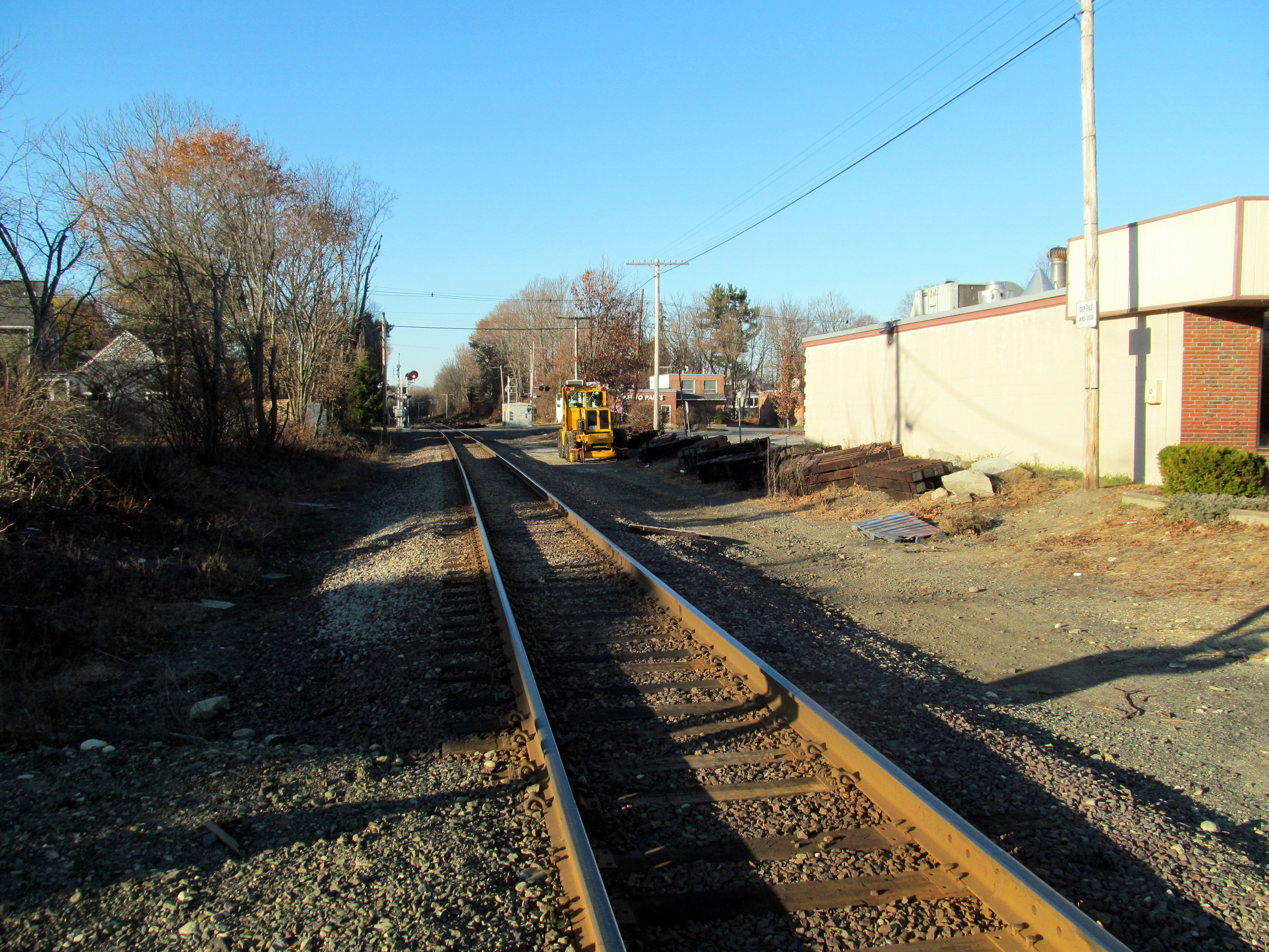 Former site of West Acton station, which was closed in 1975. A station building formerly existed on the outbound side of the tracks, where the pizza parlor at right now stands. In 2013, the second track will be extended through this site. This view looks north from Route 111 (Massachusetts Avenue).